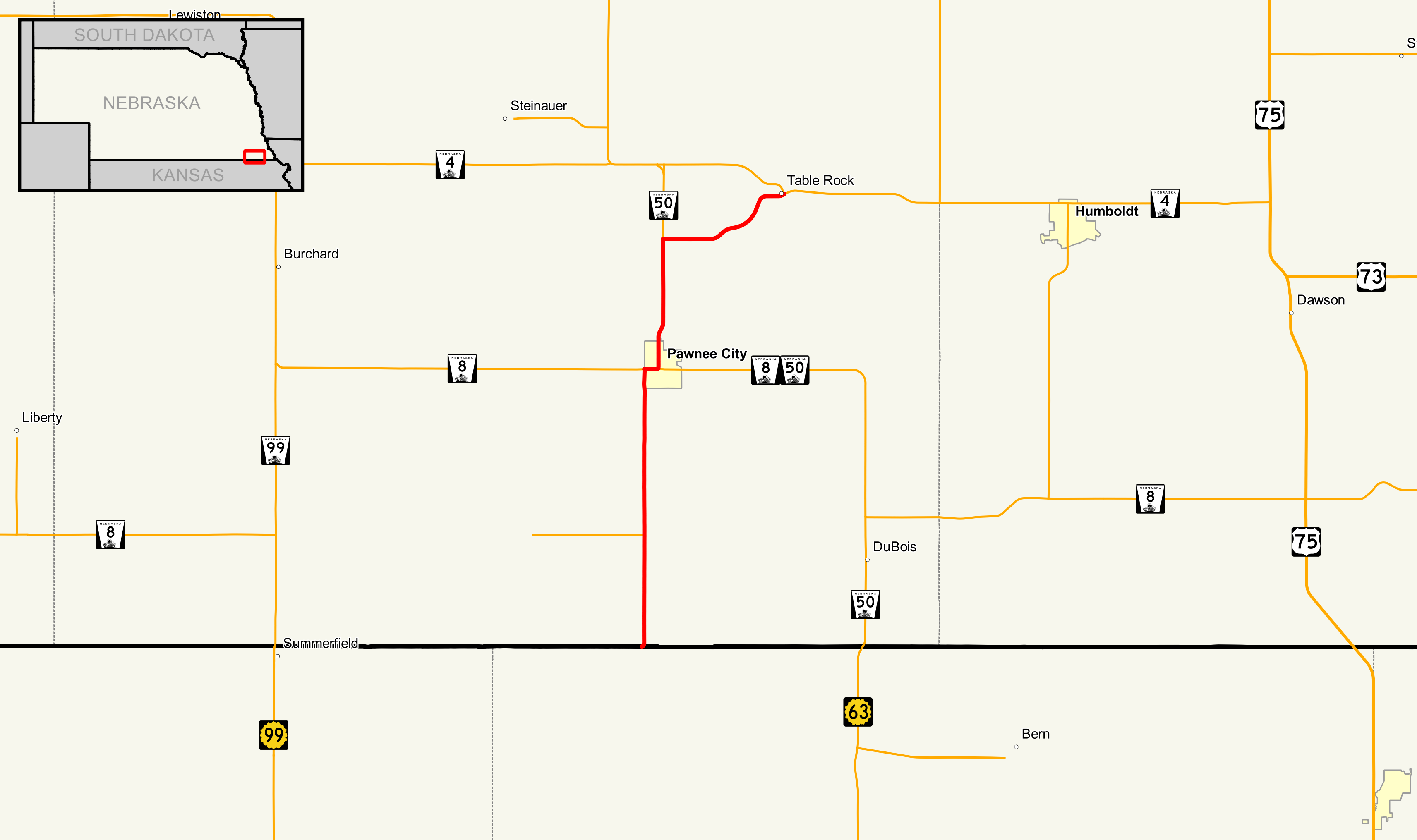 Map of Nebraska Highway 65 Data Sources: Nebraska Highways - - Dec 2016 Nebraska County Boundaries - - Dec 2016 Nebraska City Boundaries - - Dec 2016 This PNG graphic was created with QGIS